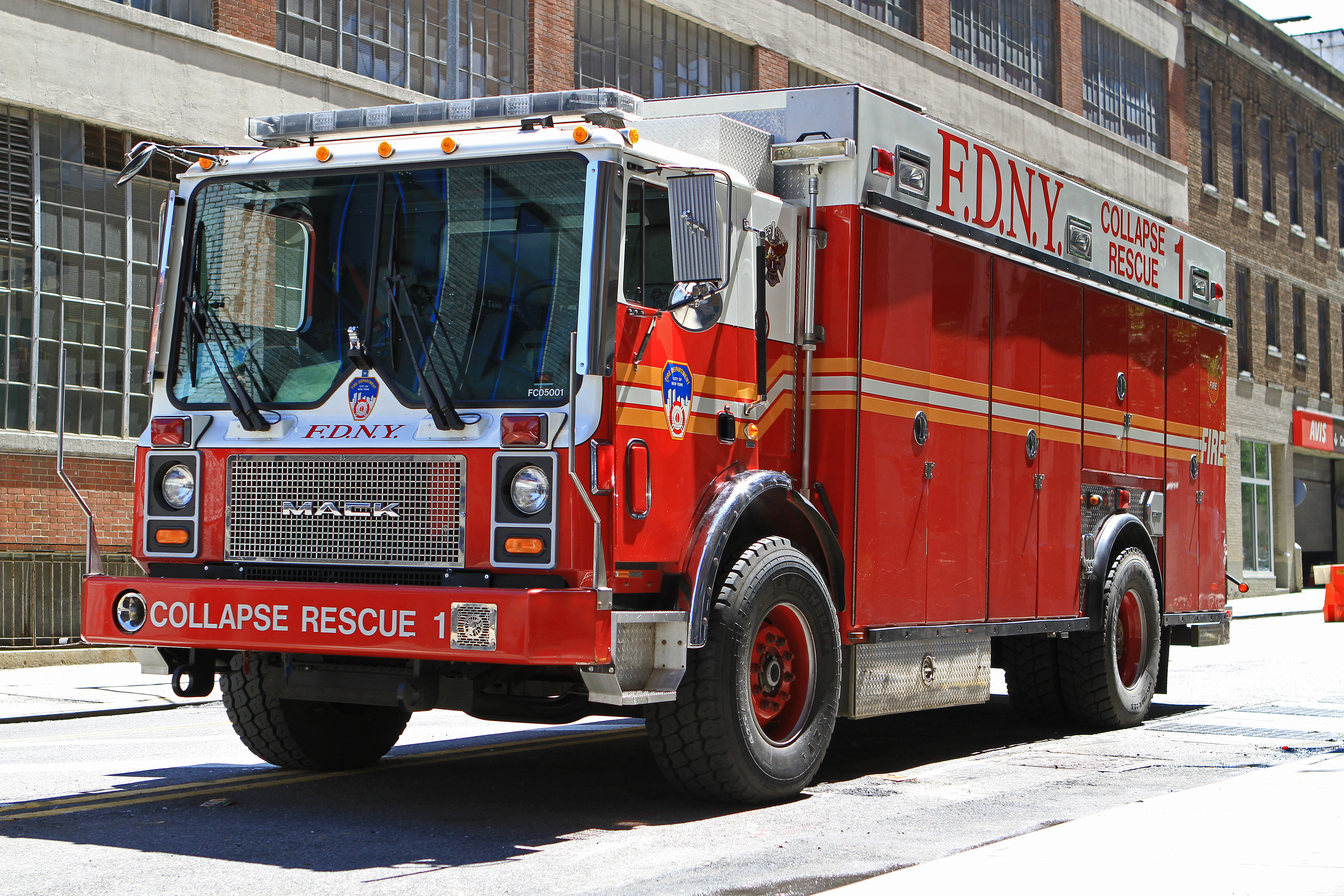 FDNY - Collapse Rescue 1